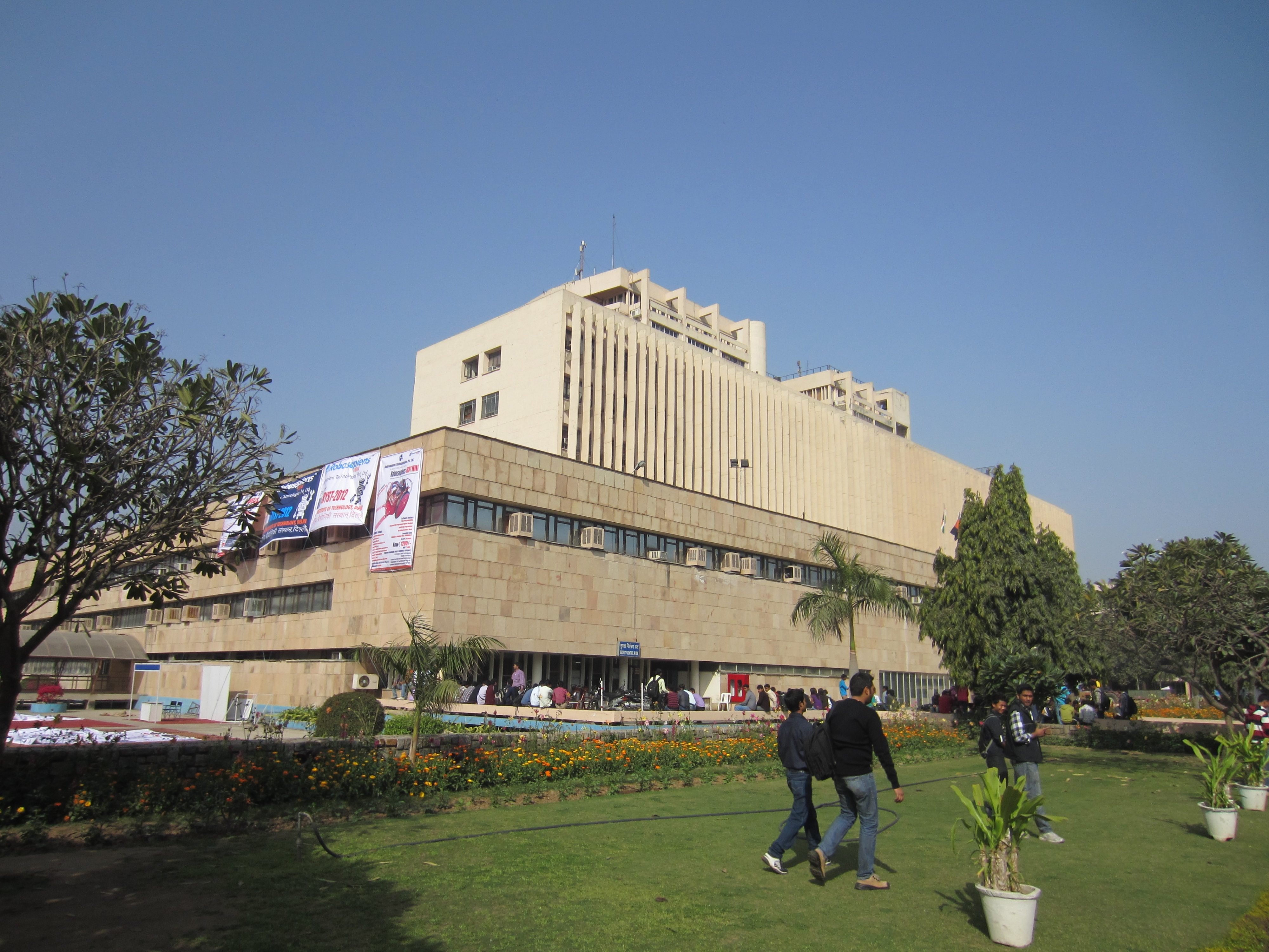 premier institute in delhi.